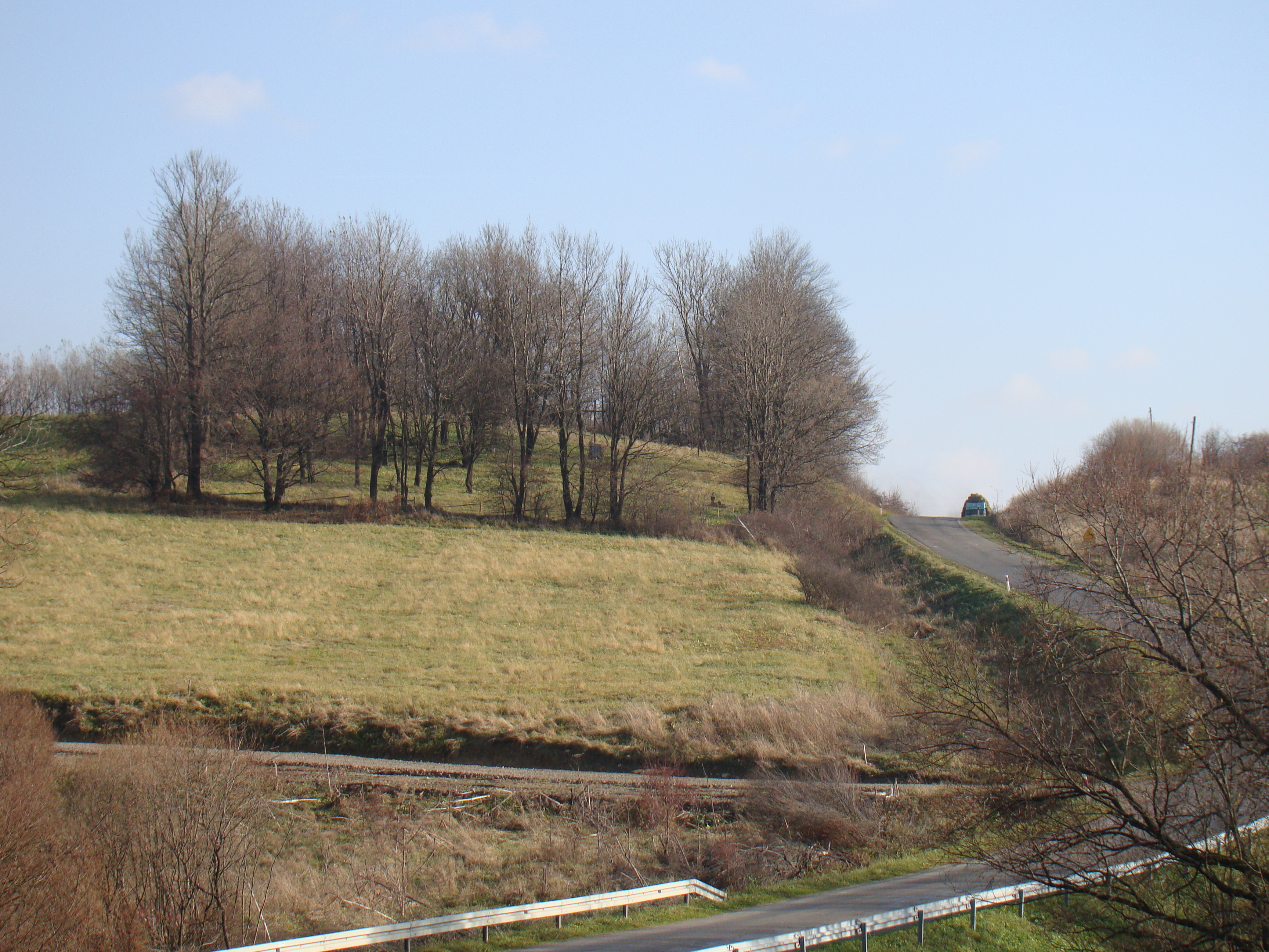 village Płonna